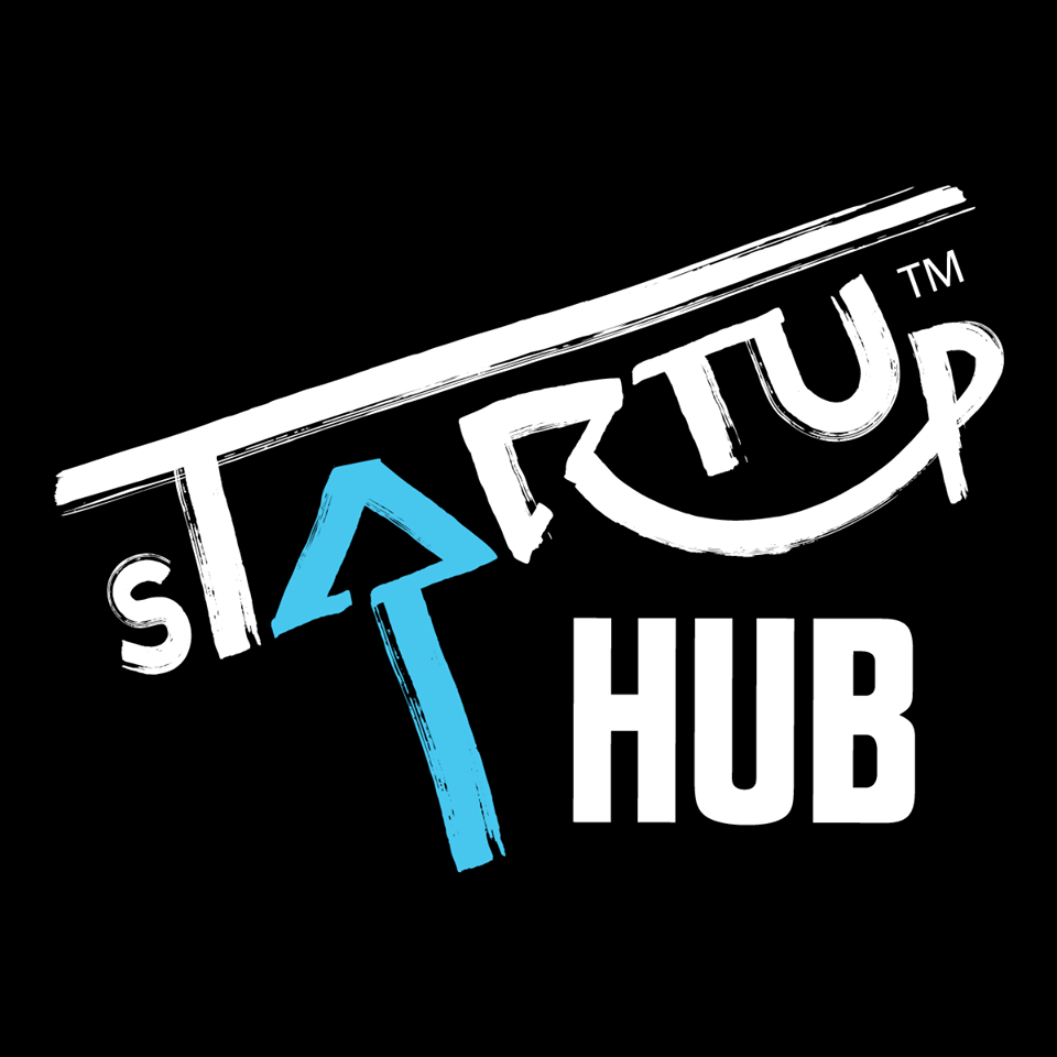 sTARTUp HUB logo